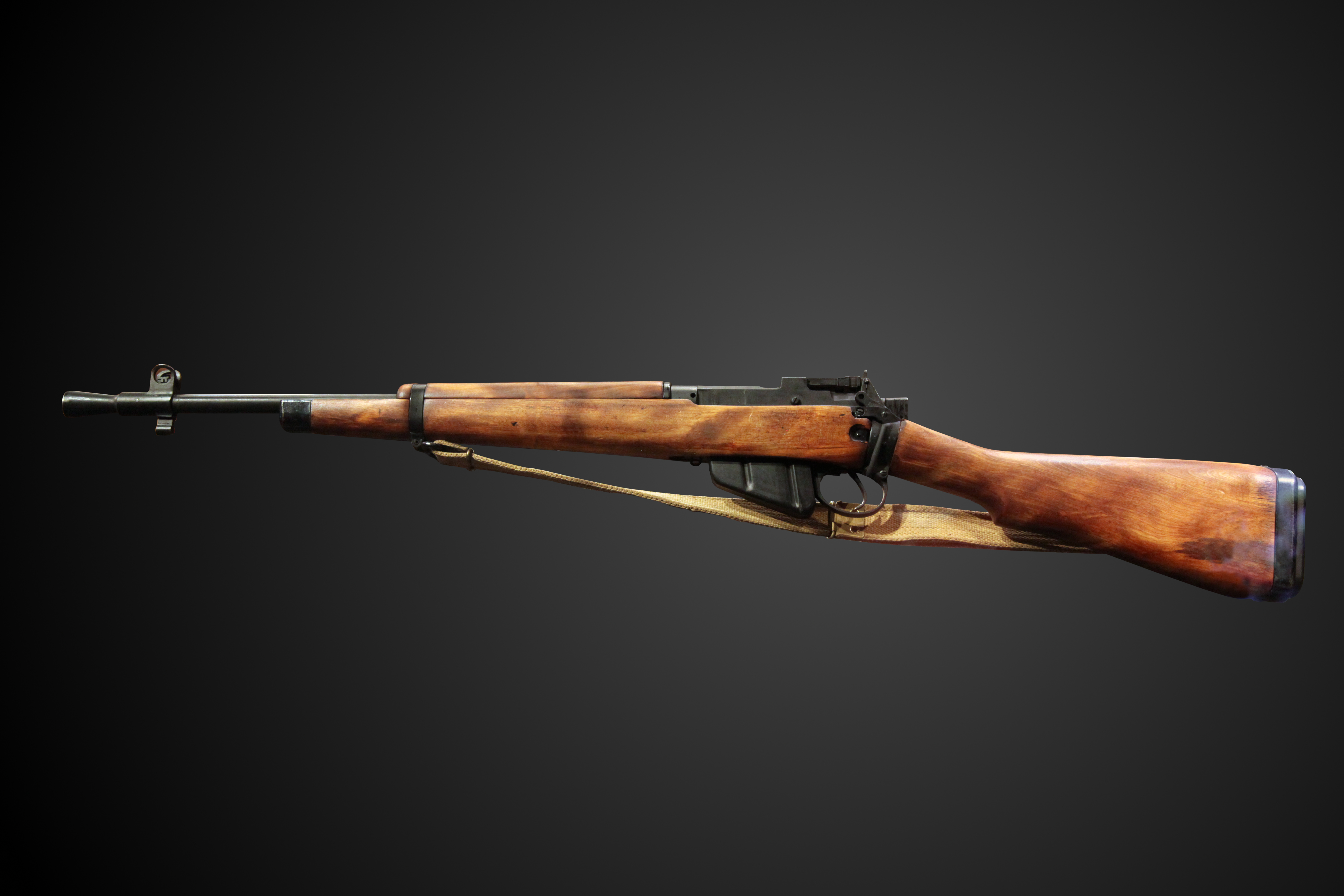 Lee-Enfield No 5 rifle on display at the Parachute Regiment and Airborne Forces Museum